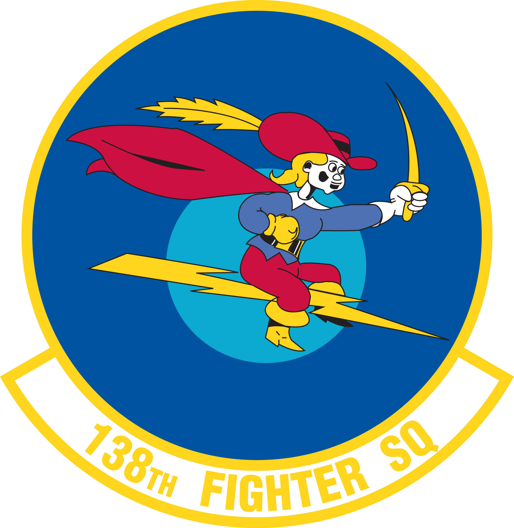 Emblem of the 138th Fighter Squadron